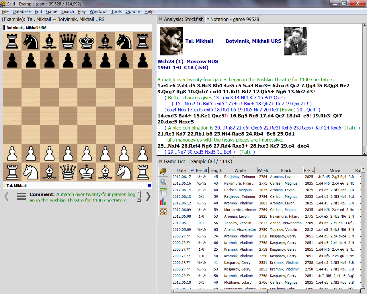 Main window of Scid. The version is 4.6.2 and is running in Windows 7.